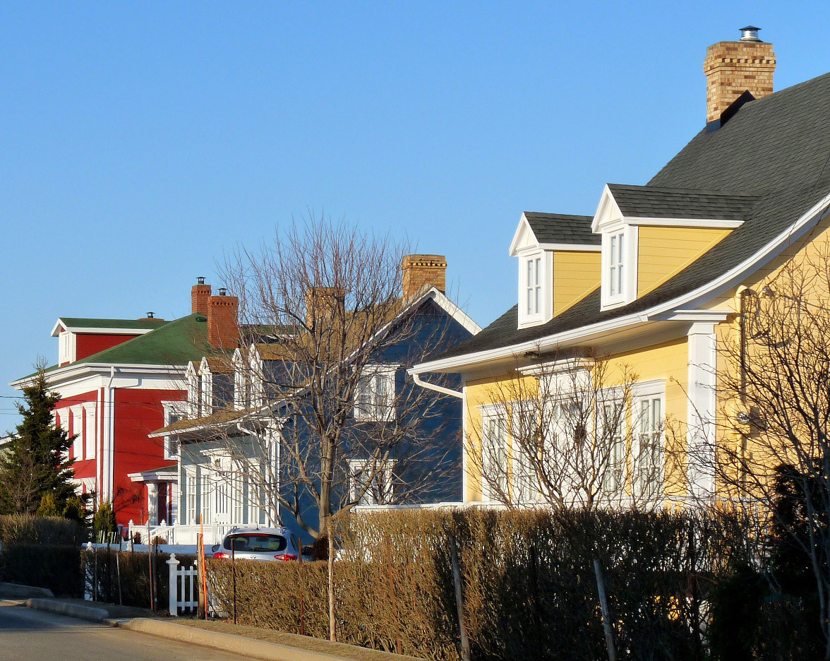 Alignment of old homes in the village of Kamouraska, Quebec, Canada